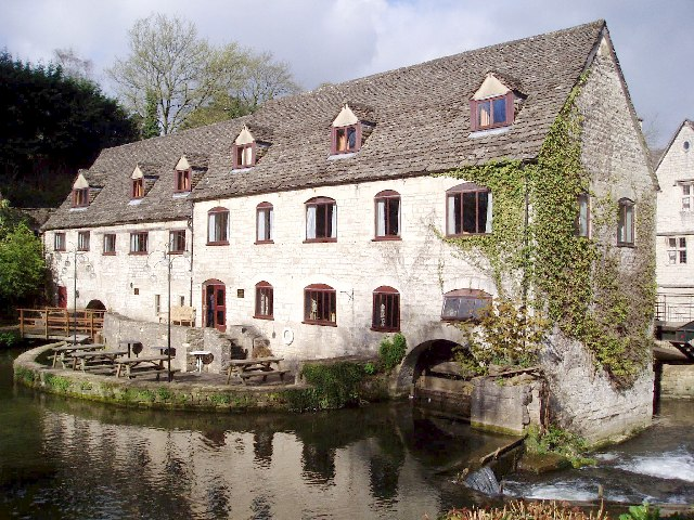 Egypt Mill. Once owned by the Faroah family, we can see why this 450 year old building was called Egypt Mill. It is now a hotel, but the water wheel still turns in the bar and there are various other trappings of a corn mill to be seen.